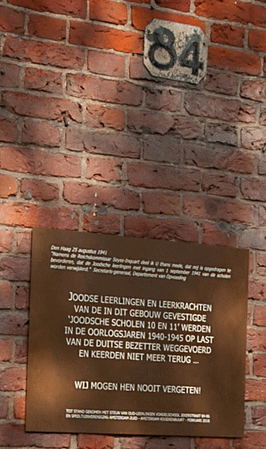 Jeker School Amsterdam Memorial Board